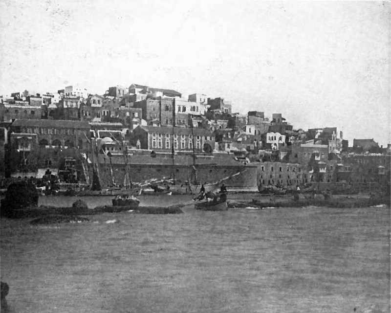 Jaffa port 1906